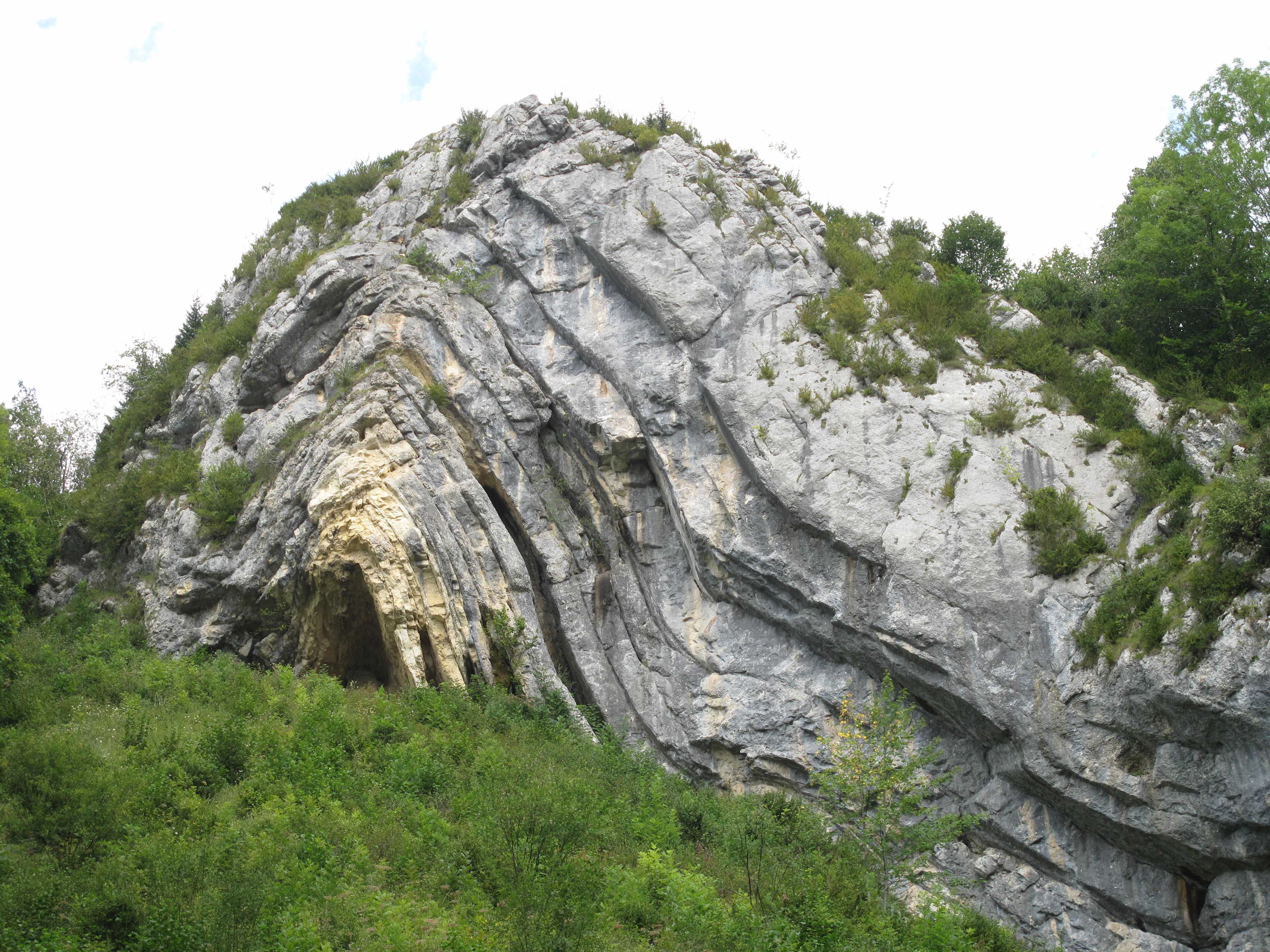 The folding of stratas of the chapeau de gendarme near Septmoncel (Jura, France).